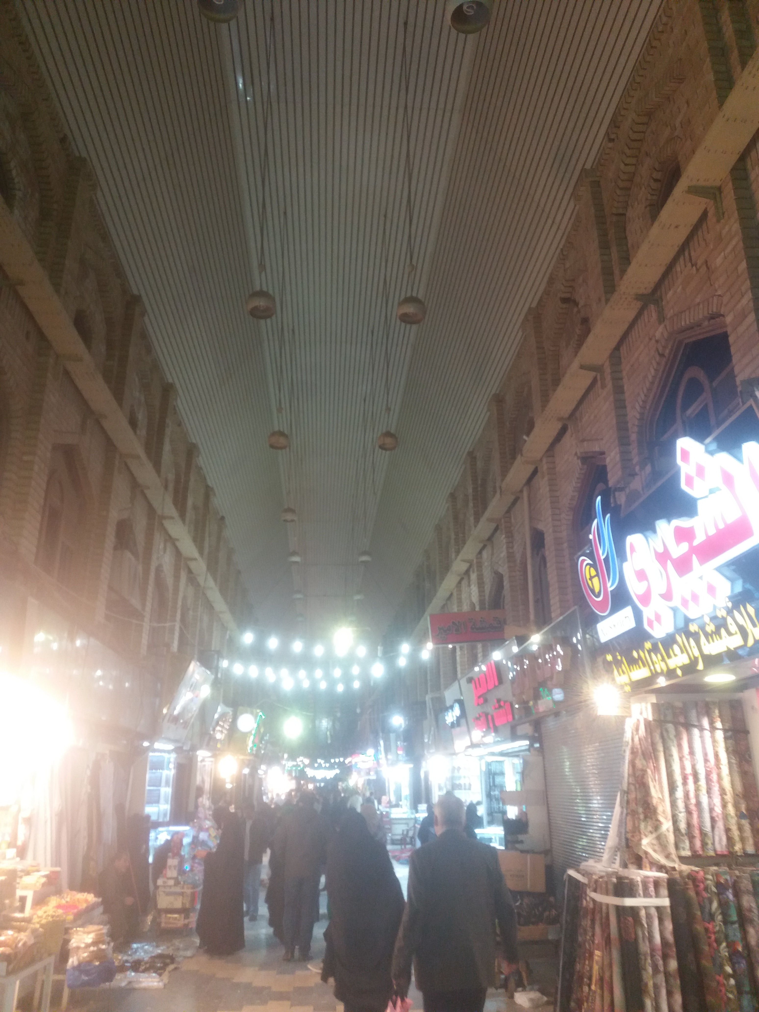 Najaf, 2017